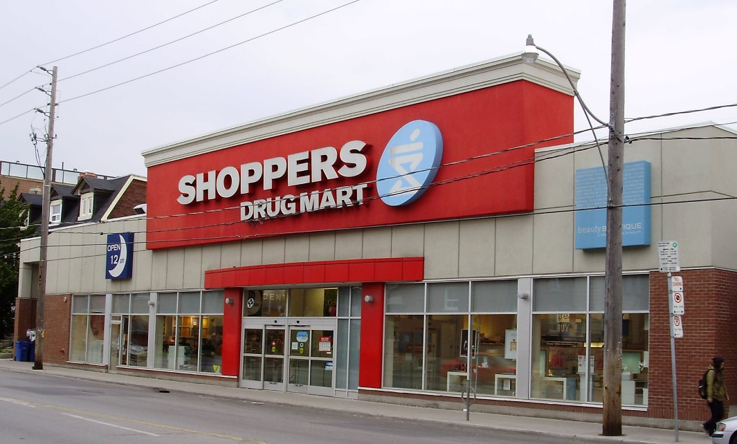 A Shoppers Drug Mart store on Dupont Street in Toronto, Canada.